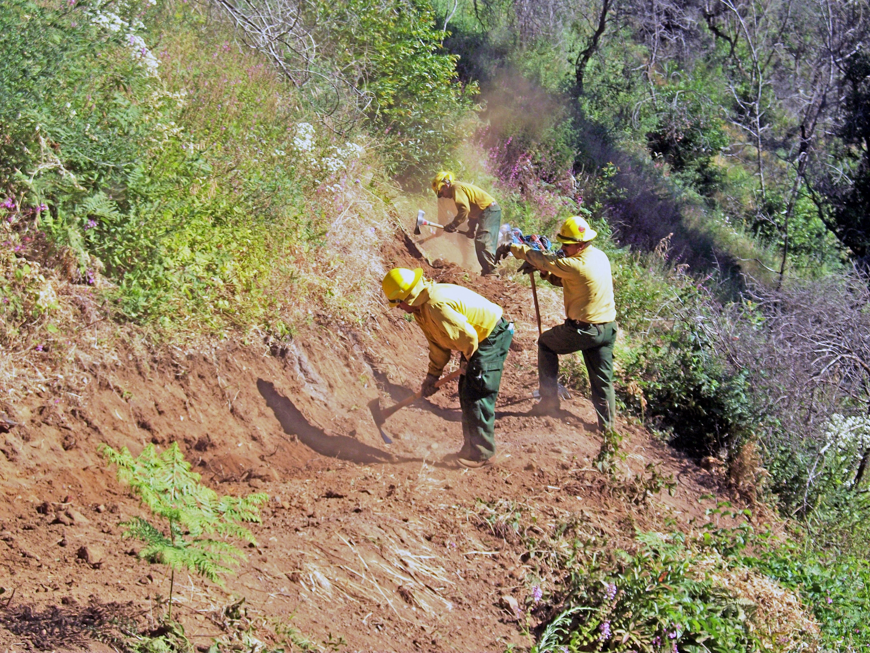 Crews worked for months to rehabilitate nearly two hundred miles of remote trails.